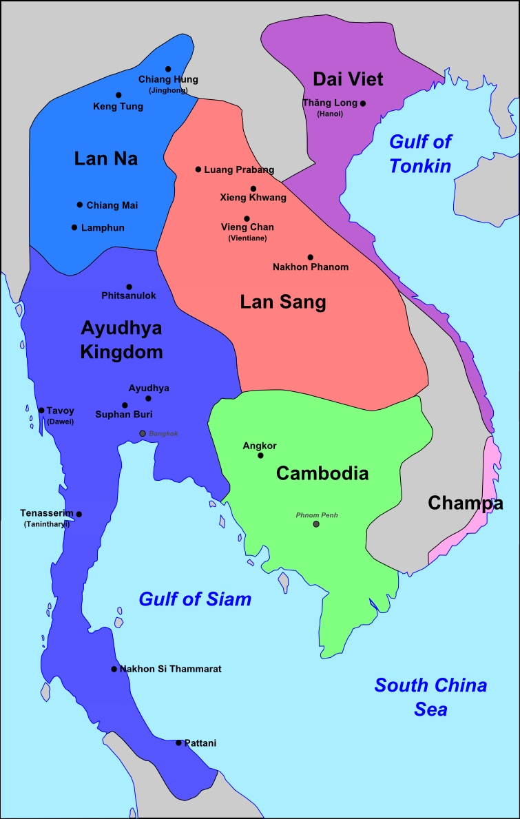 Southeast Asian history - Around 1540